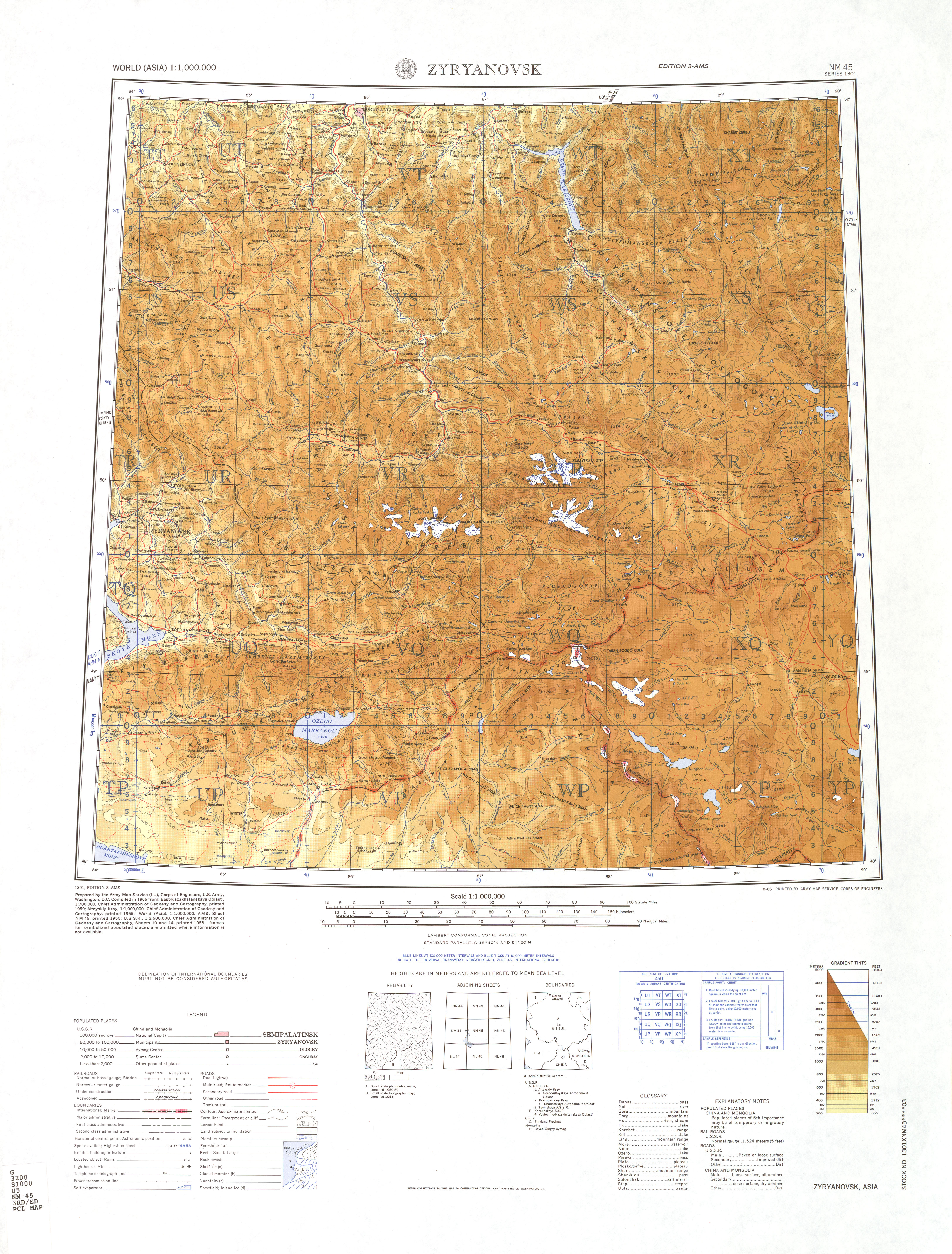 Map from the International Map of the World 1:1,000,000